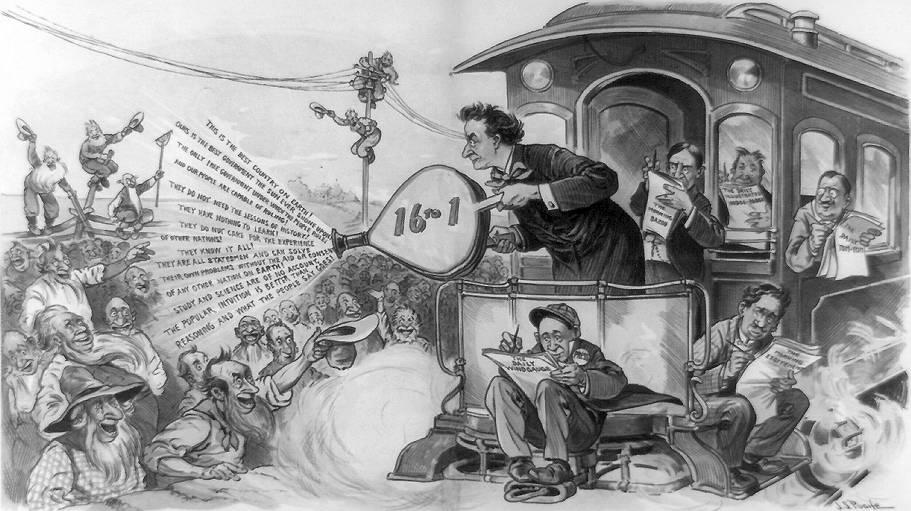 Cartoon in Puck magazine, mocking William Jennings Bryan's whistle-stop campaign